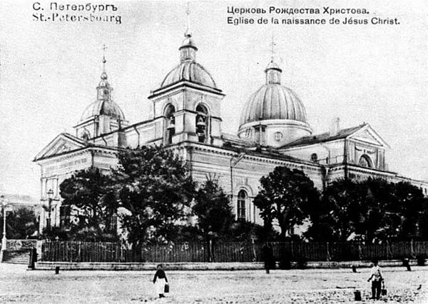 Christmas church on Sands, Saint-Petersburg, Russia, 1898.